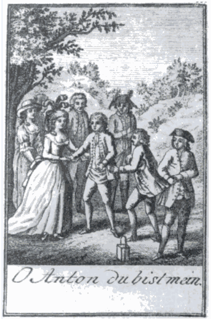 Picture published in the "Allmanach fuer Theaterfreunde auf das Jahr 1791", showing the theatrical troupe of Emanuel Schikaneder performing the number "O Anton du bist mein" from Benedikt Schack's Singspiel Die zween Anton (or Die beiden Antons). From left to right: Barbara Gerl (Liesel), (obscured image), Josepha Hofer (Gräfin Josepha), Johann Nouseul (Graf von Dorn), Benedikt Schack (Anton Redlich), Franz Gerl (Redlich), Emanuel Schikaneder (Anton), Jakob Haibel (Graf Fritz von Dorn).